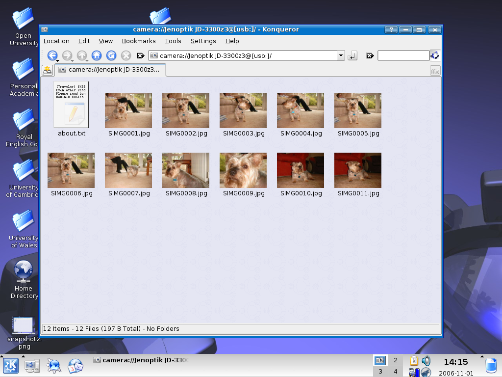 Using konqueror to browse the contents of a digital camera connected to kubuntu by the software kamera.